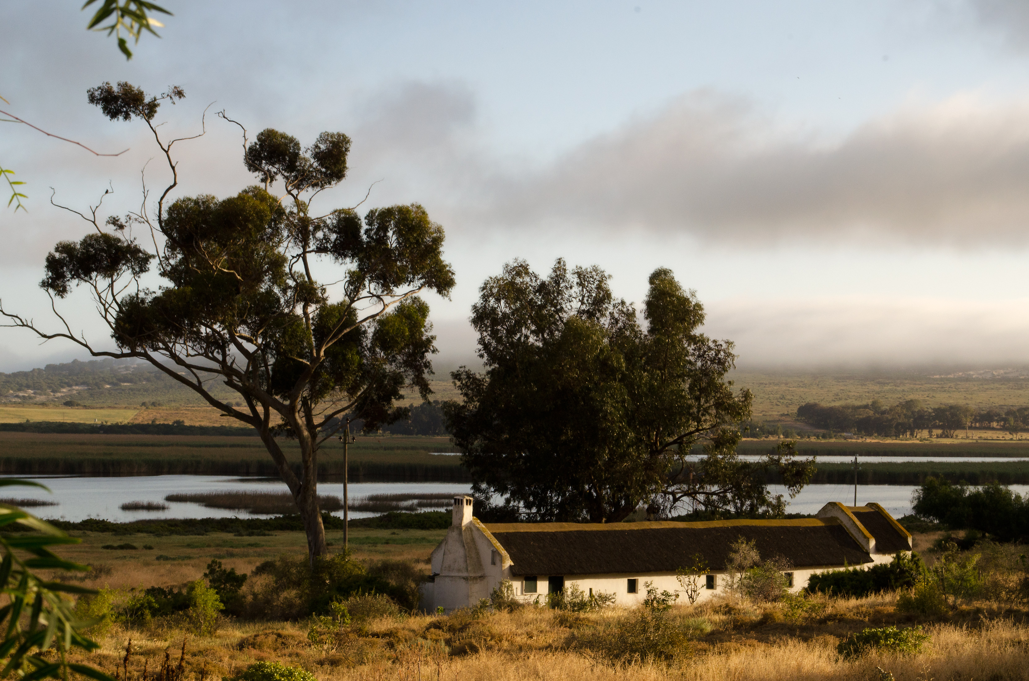 Portions 18-36, Farm Verlorenvlei No 8, Elands Bay was formally gazetted as a Provincial Heritage Site on 23rd September 2014. Provincial Govt Gazette #7310, PN256/2014. It was opened by MEC for Culture and Sport, Nomafrench Mbombo 0n 29th September 2014. This media shows a South African Protected Site with SAHRA file reference HM\WESTCOAST\CEDERBERG\VERLORENVLEI HERITAGE VILLAGE.